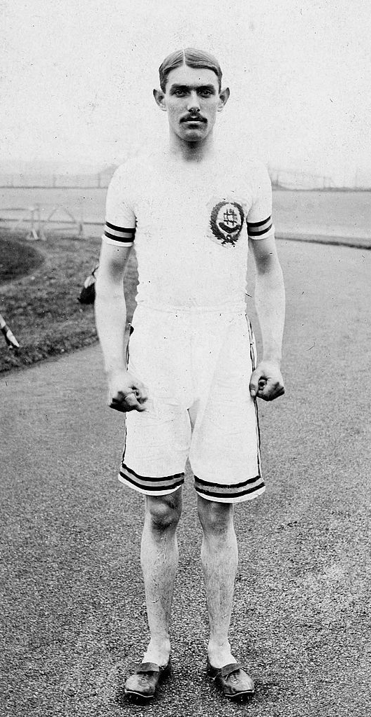 Alfred Shrubb